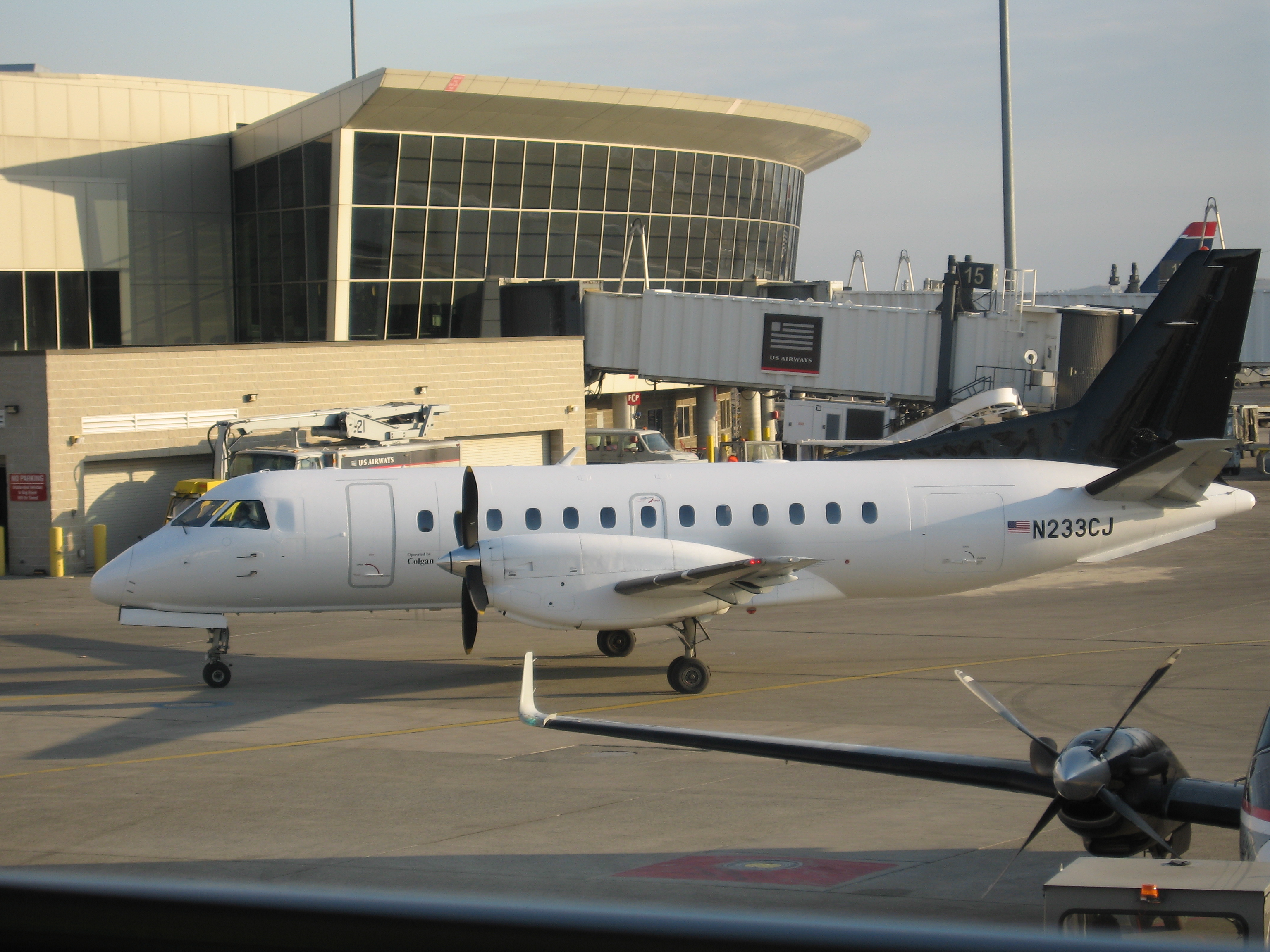 Saab 340B operated by Colgan Air at Logan International Airport